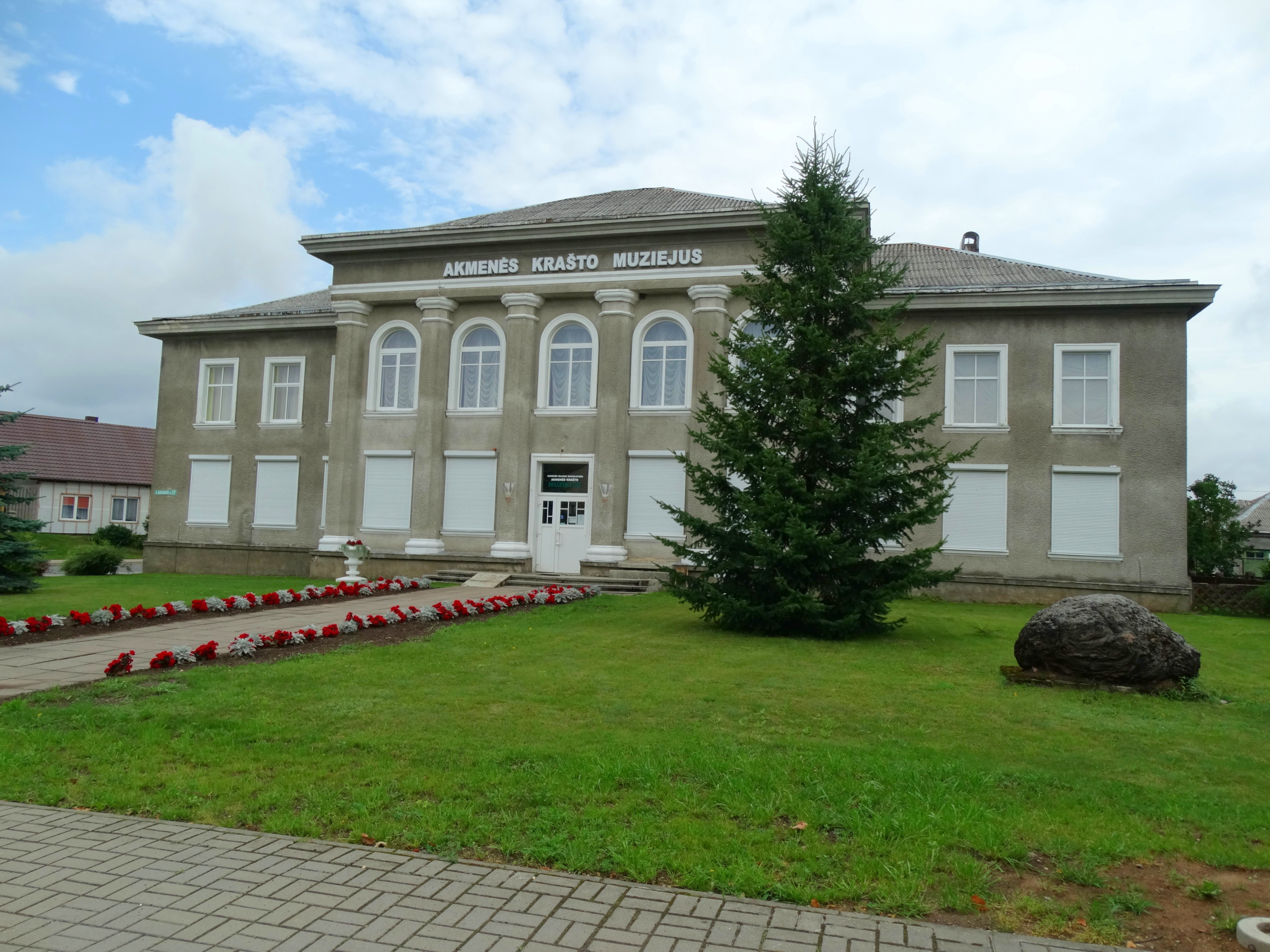 Museum, Akmenė, Lithuania